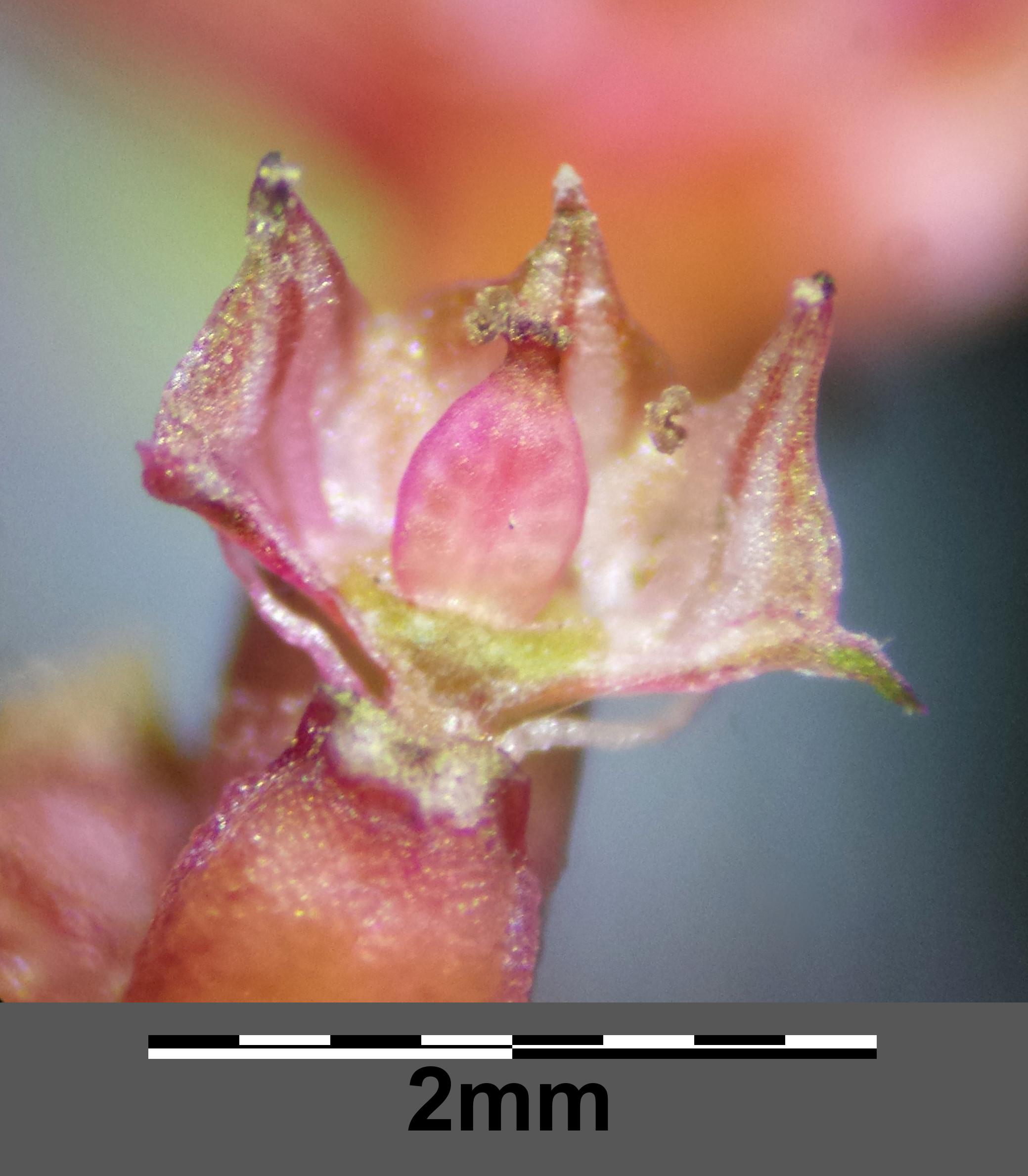 Fruit (calyx in front removed) Taxonym: Peplis portula ss Fischer et al. EfÖLS 2008 ISBN 978-3-85474-187-9 Location: Rudmannser Teich, district Zwettl, Lower Austria - ca. 580 m a.s.l. Habitat: ground of a lake